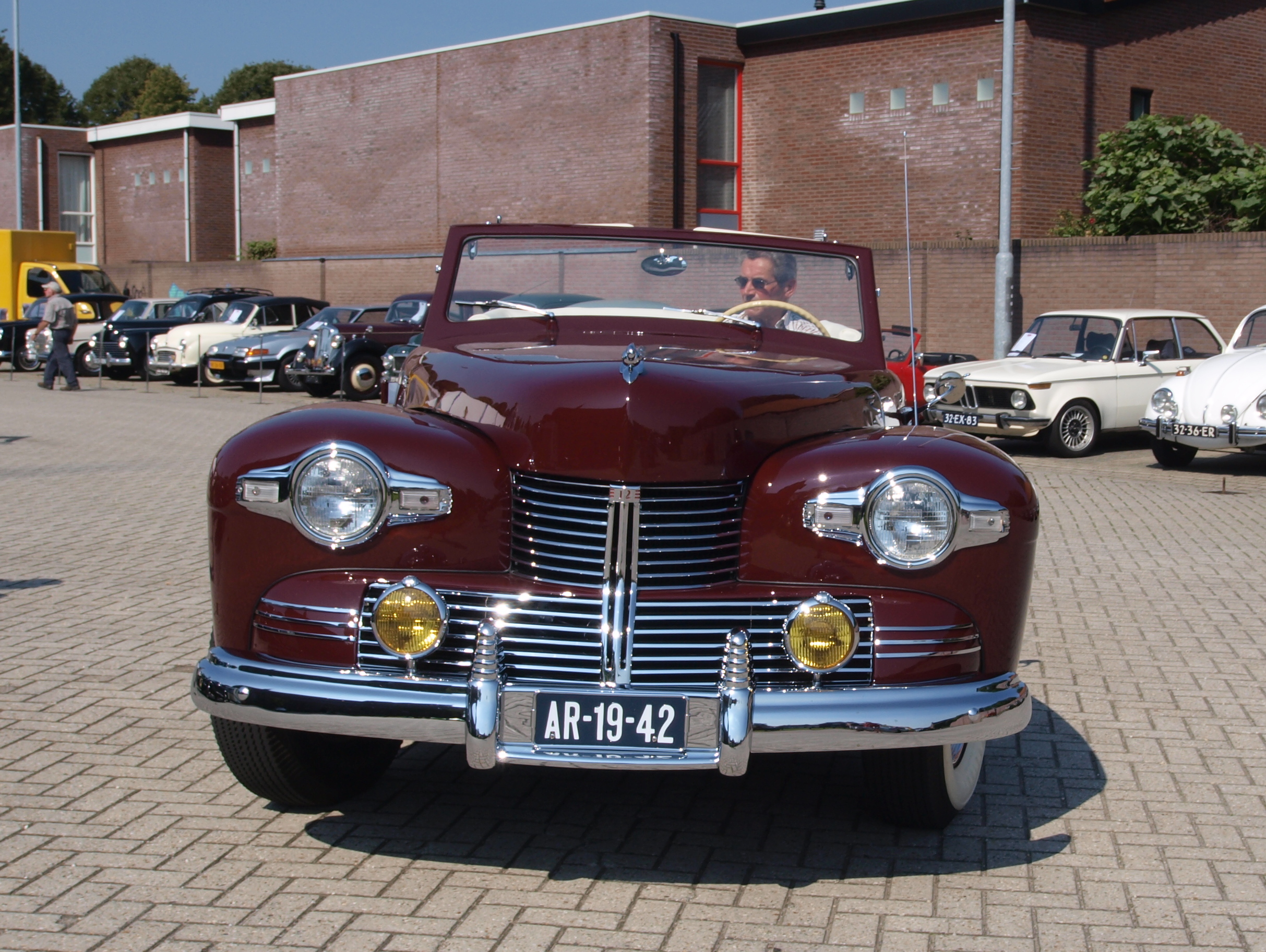 1942 Lincoln Continental Cabriolet, photographed at Zeeland, The Netherlands.